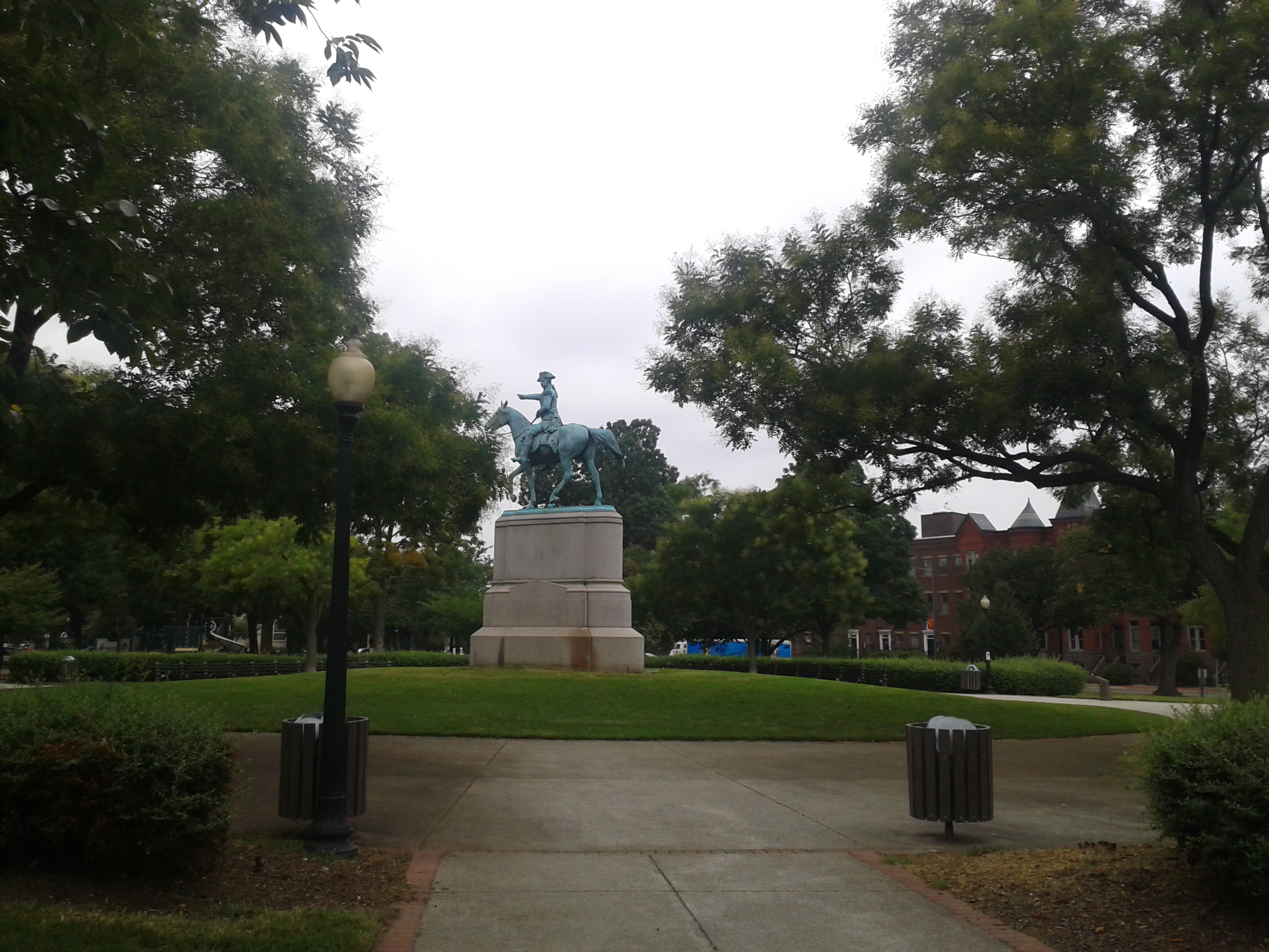 Stanton Park, Washington, DC, with the statue of General Nathanael Greene in the center